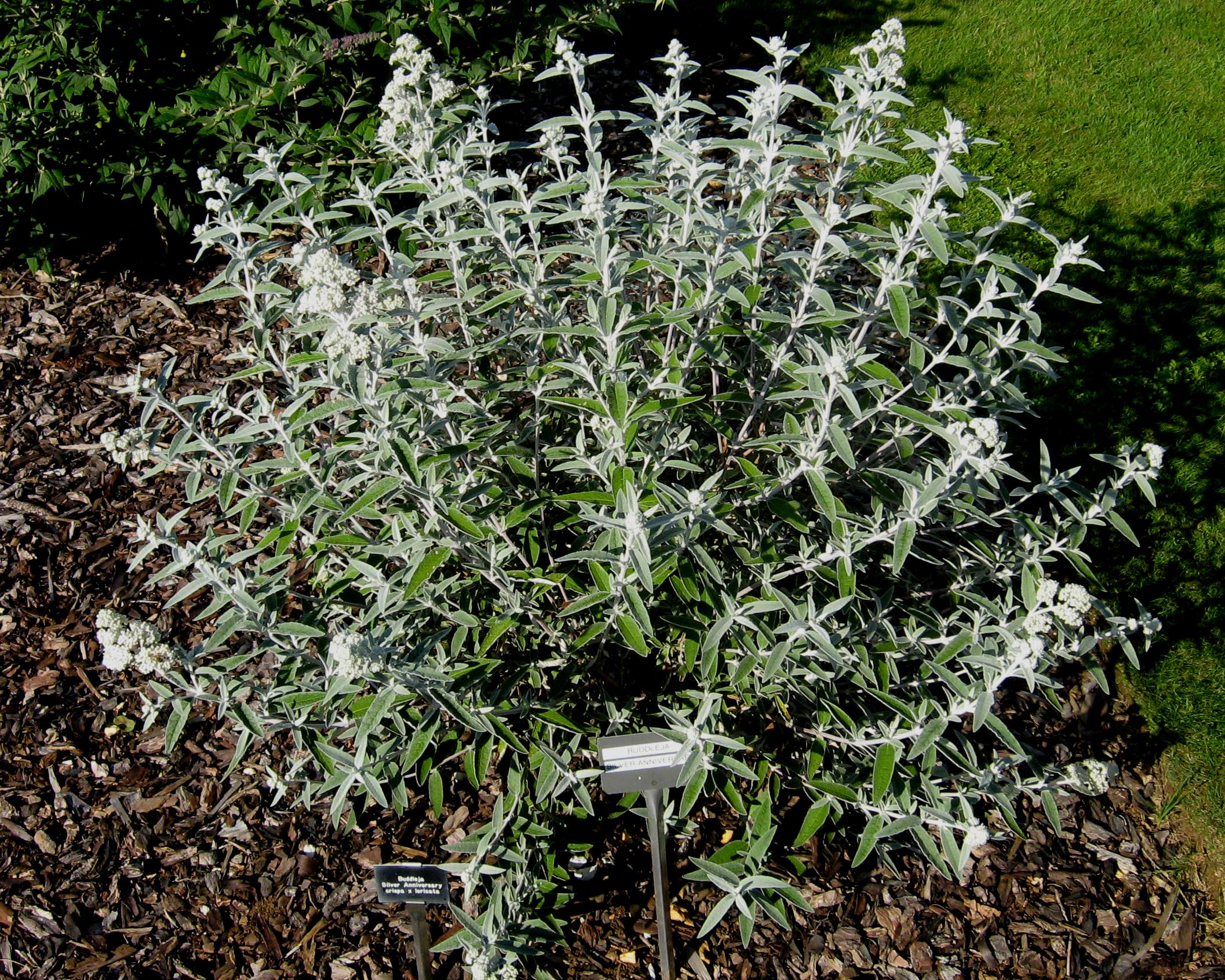 Photo of Buddleja cultivar taken at Longstock Park Nursery, UK, NCCPG national collection holder